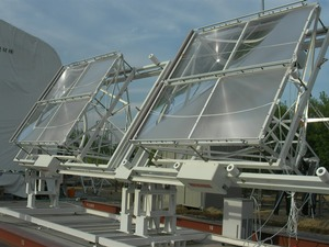 Solar pumped laser in Chitose, Japan